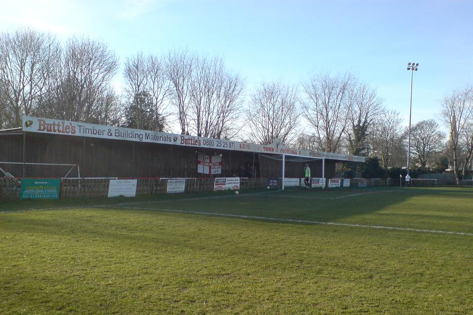 A photo of one of the end terraces at Leighton Town F.C.